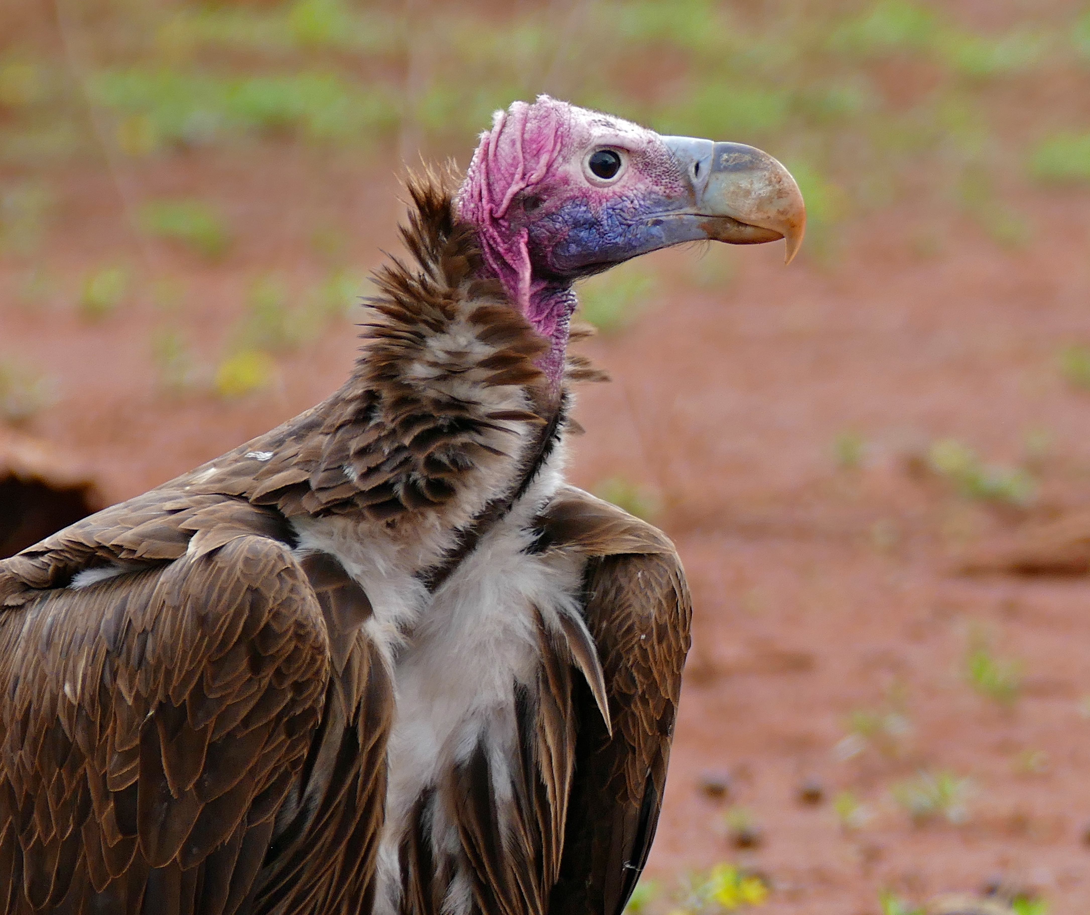 S128 Road North of Lower Sabie, Kruger NP, Mpumalanga, SOUTH AFRICA